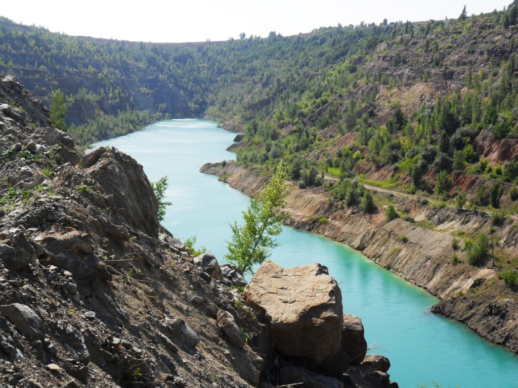 Zavallia graphite quarry, Kirovograd oblas`t